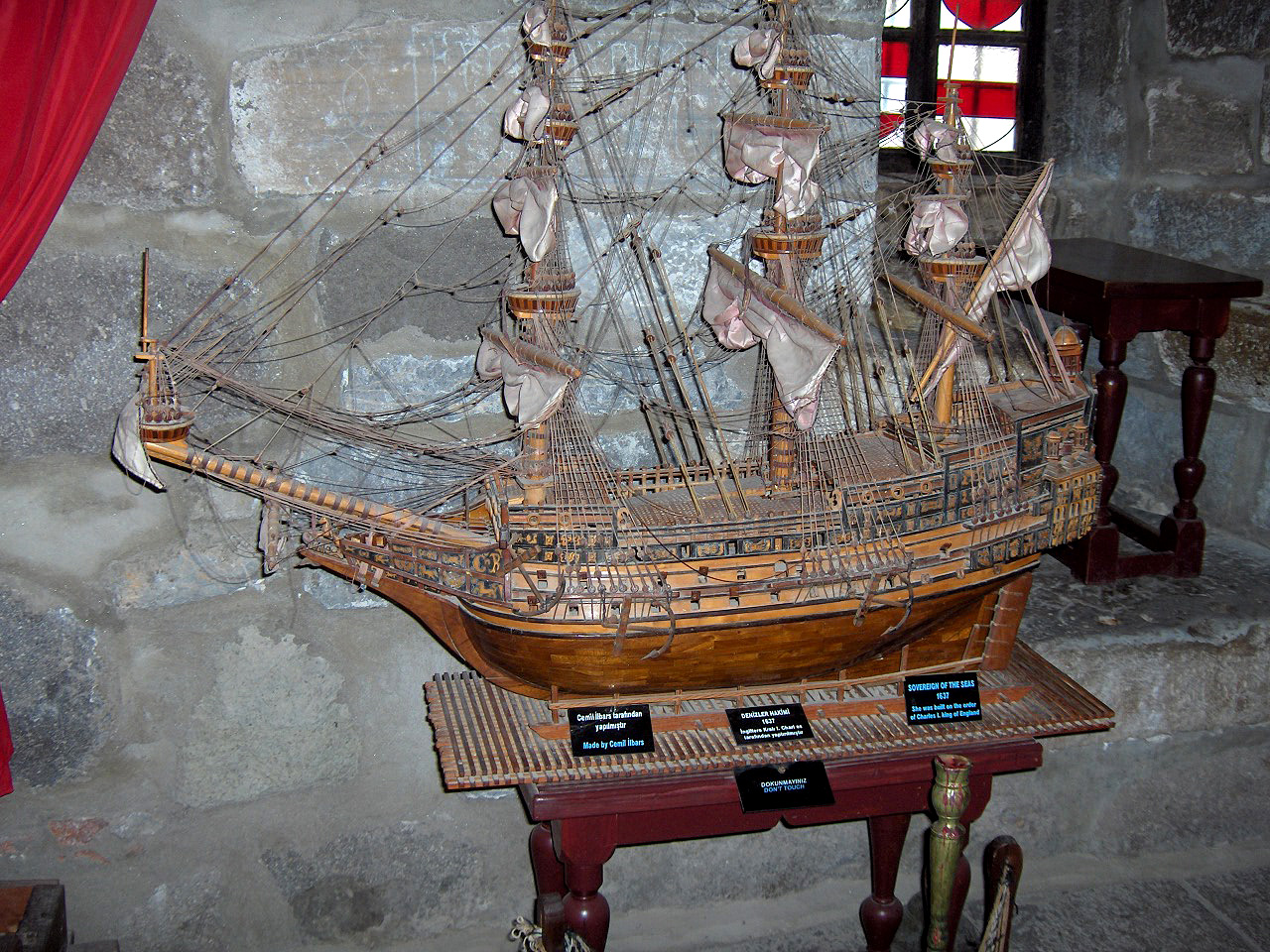 Sovereign of the Seas; English tower, St. Peter's castle, Bodrum, Turkey